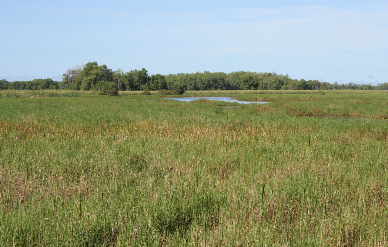 Bigi Pan Nature Reserve, Suriname. Lots of birds in these wetlands.